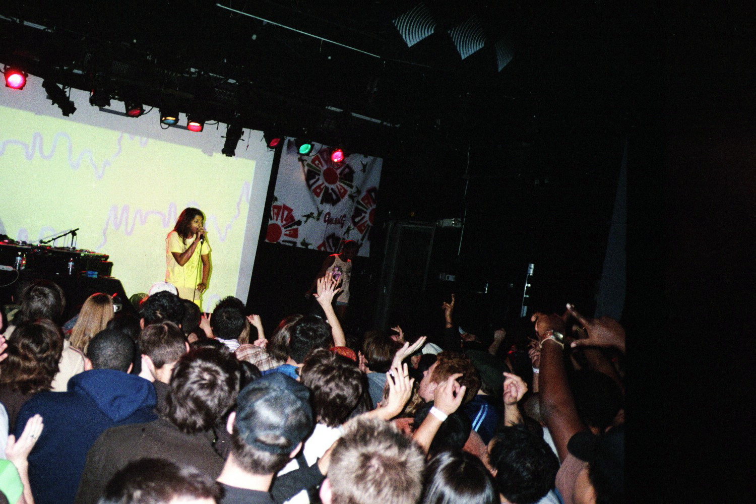 M.I.A. singing "Galang" at the Knitting Factory in Los Angeles, February 2005